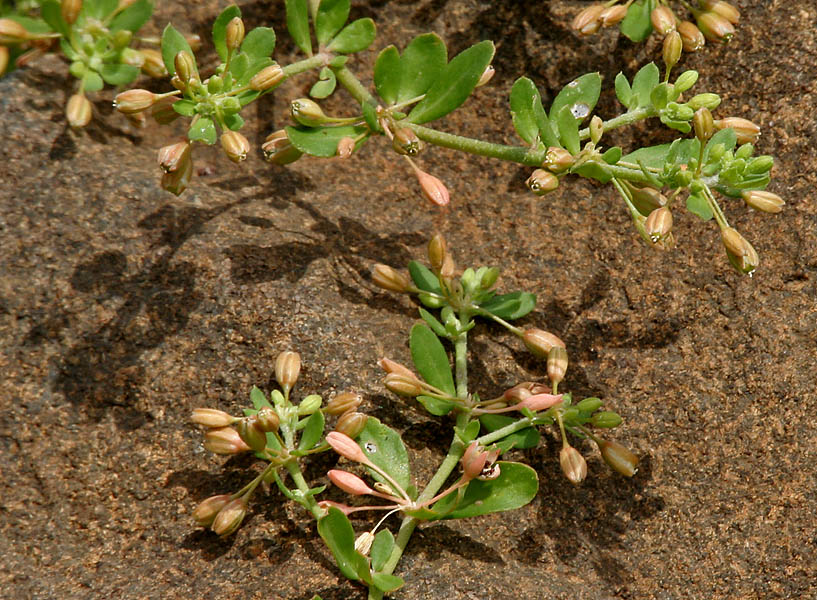 Glinus oppositifolius (syn. Mollugo oppositifolia, Mollugo spergula)- bitter cumin, bitter leaf, Indian chickweed •